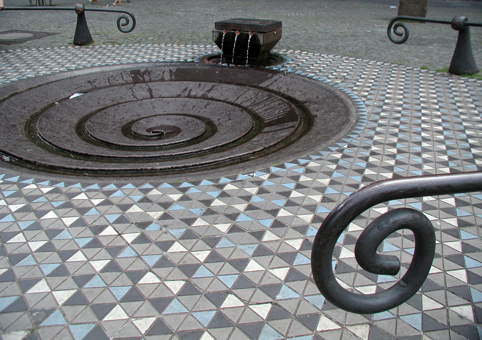 Cologgne, pigeon fountain (Ewald Matare)